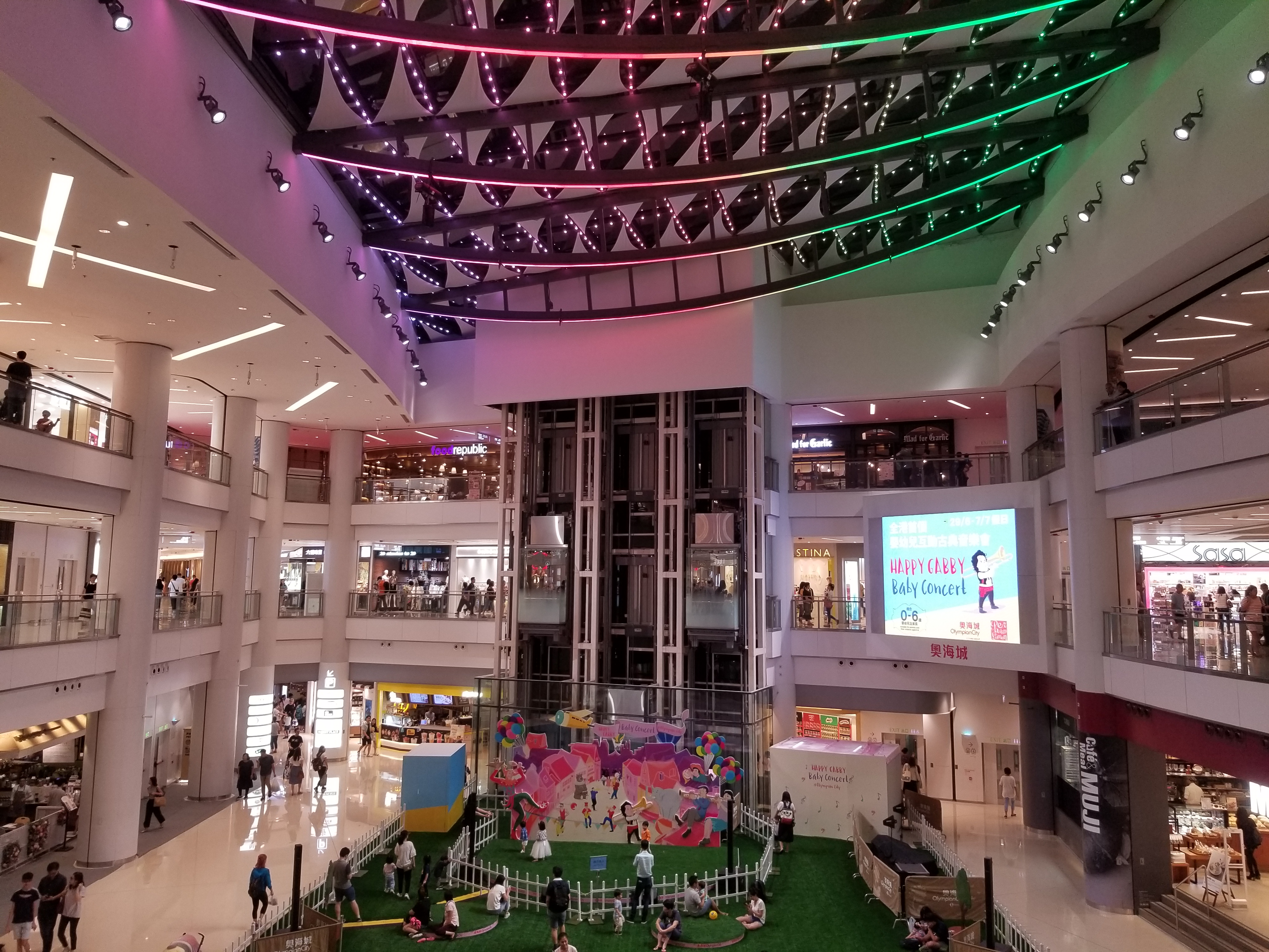 New atrium 2019